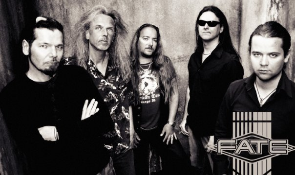 Bandphoto Fate